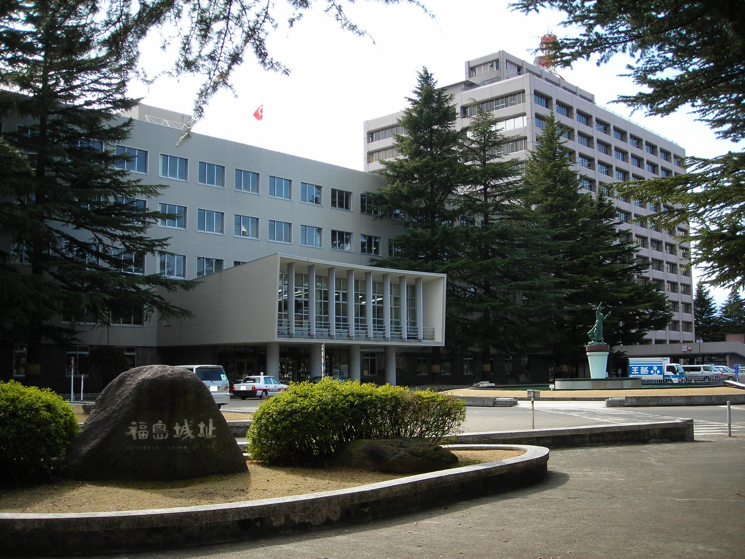 Fukushima Prefectural Government photo by とっち